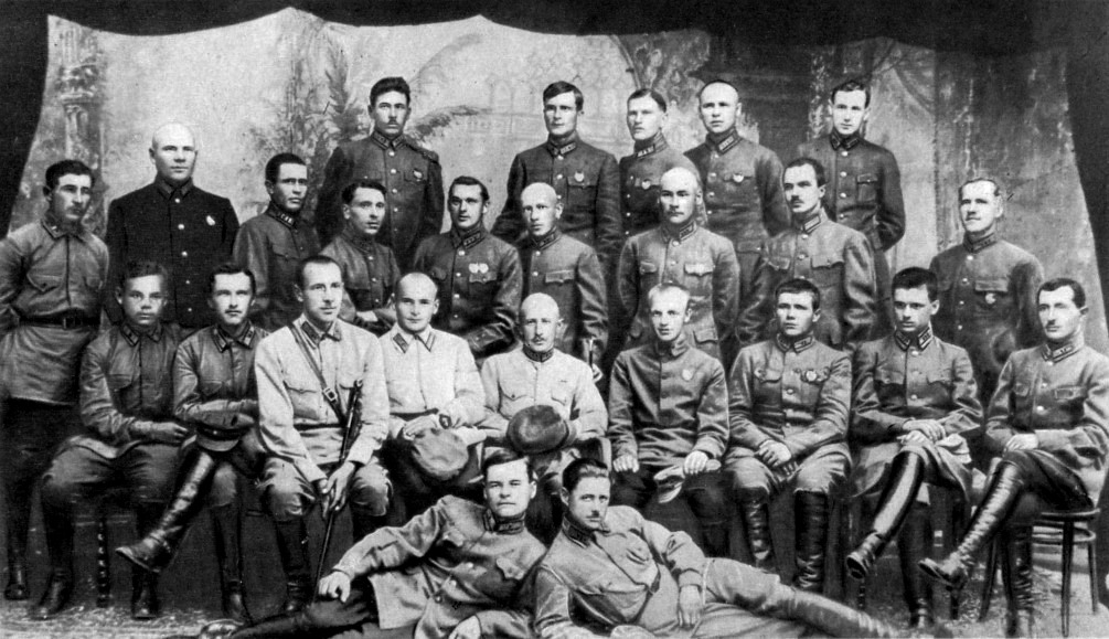 Early photograph featuring prominent Soviet officers of World War II, Zhukov, Rokossovsky, et al.